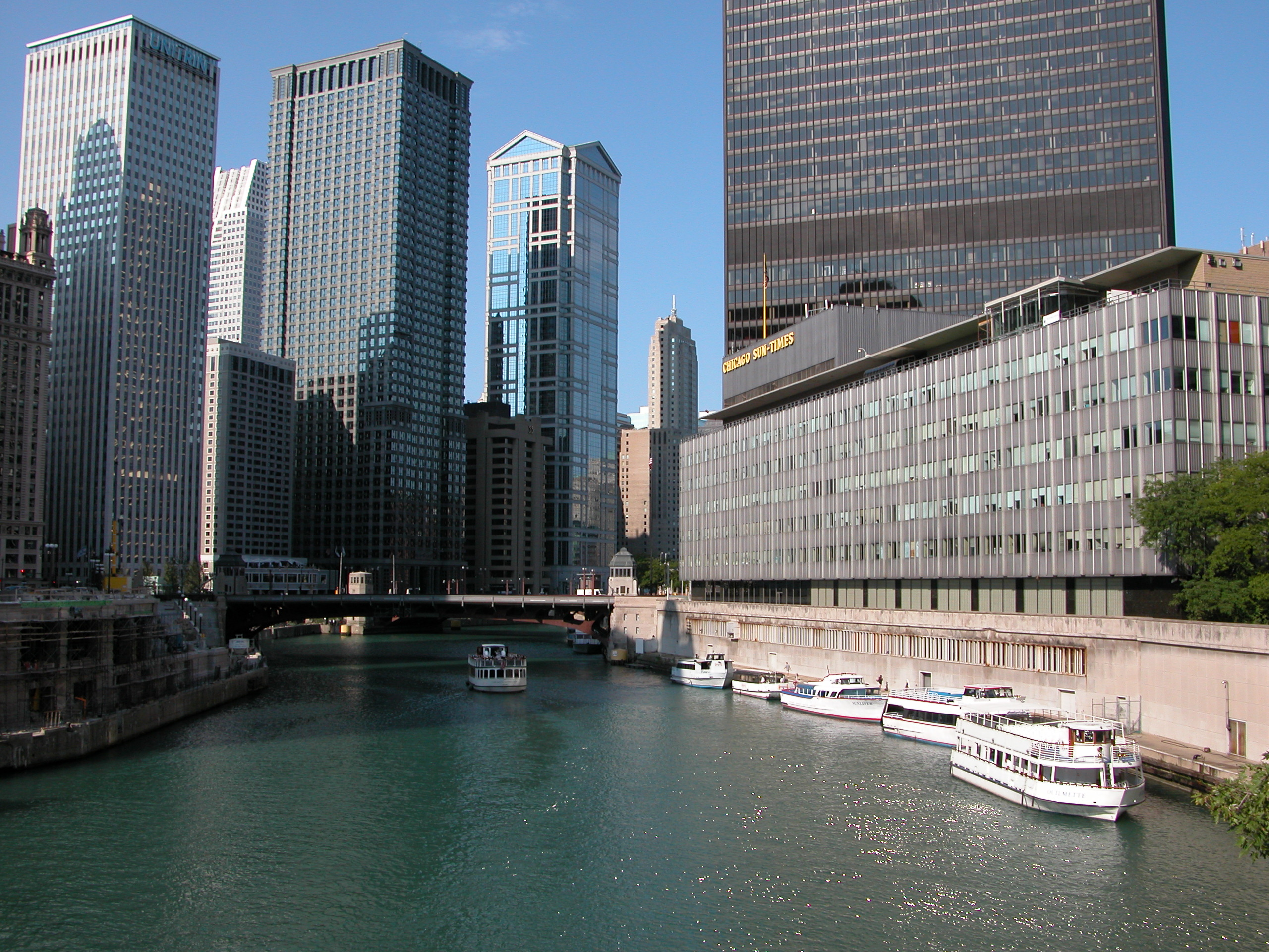 View from N Michigan Ave bridge in Chicago. The Chicago Sun-Times building on the right was demolished in 2005 to make way for Trump International Hotel and Tower.